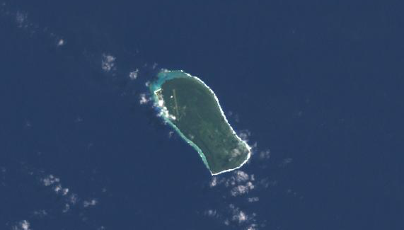 NASA LANDSAT Image of 2000, ov Tiga Island, Loyalty Islands, New Caledonia, West Pacific Ocean